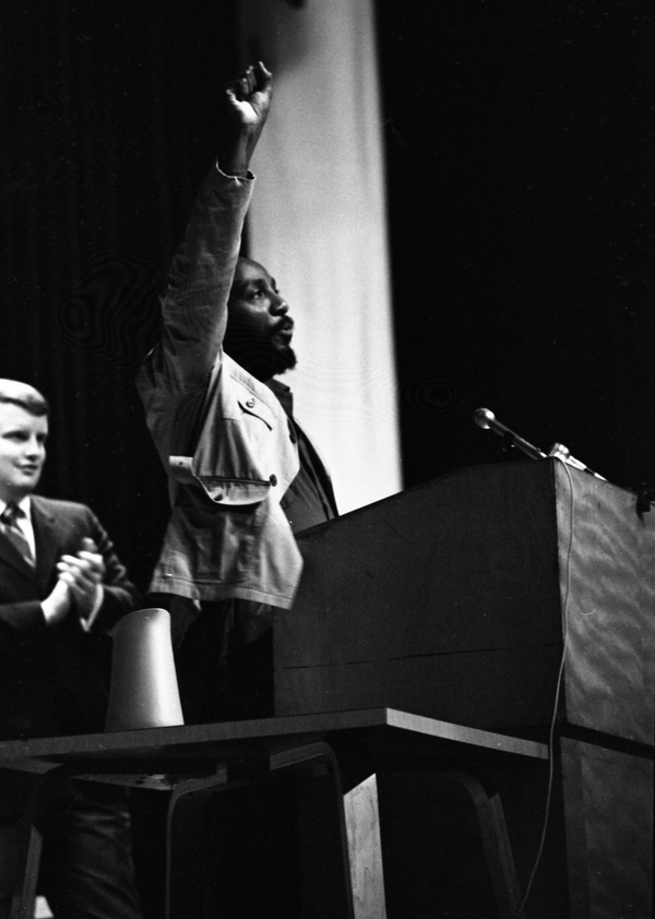 Comedian and civil rights leader Dick Gregory told a standing room only crowd at Florida State University's Westcott Auditorium last night that young people 'have a job to do' in correcting the injustices of society.